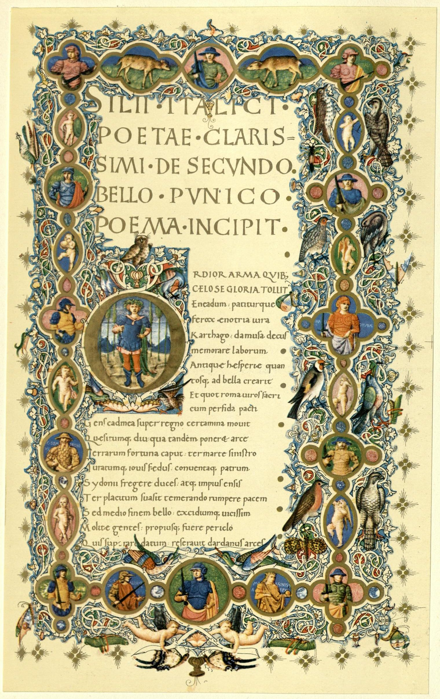 The beginning of the „Punica“ in the manuscript Venice, Biblioteca Nazionale Marciana, Lat. XII, 68 (colloc. 4519), fol. 3r.